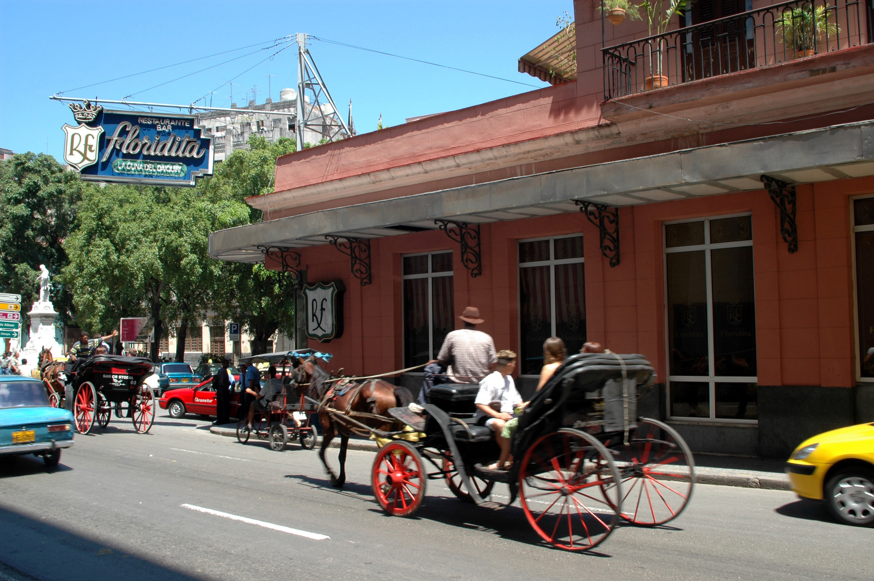 Cuba, Havana, El Floridita, Hemingway's preferred place for his daiquiri